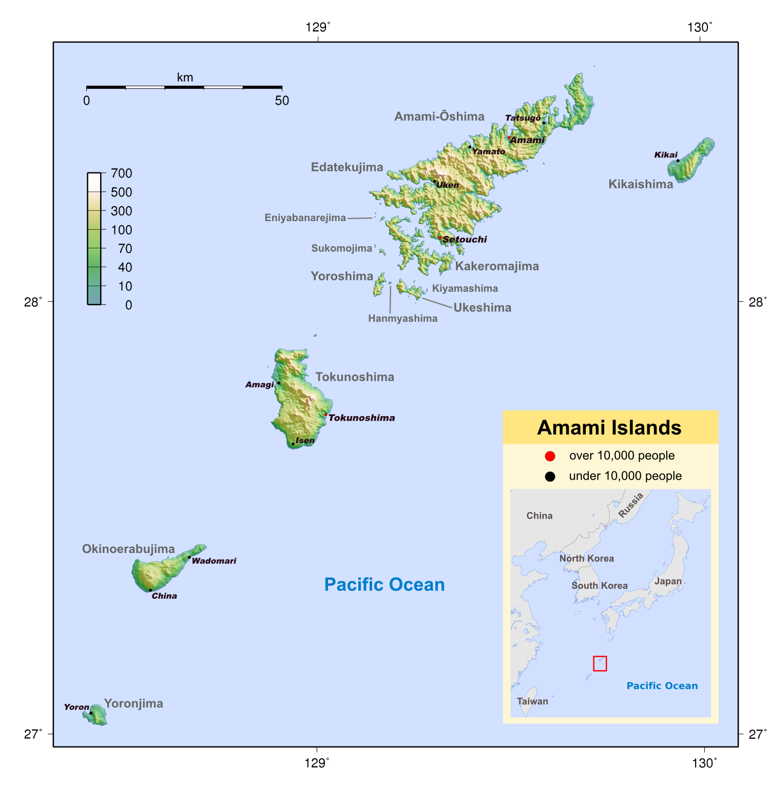 Topographic map of the Amami Islands (English version)